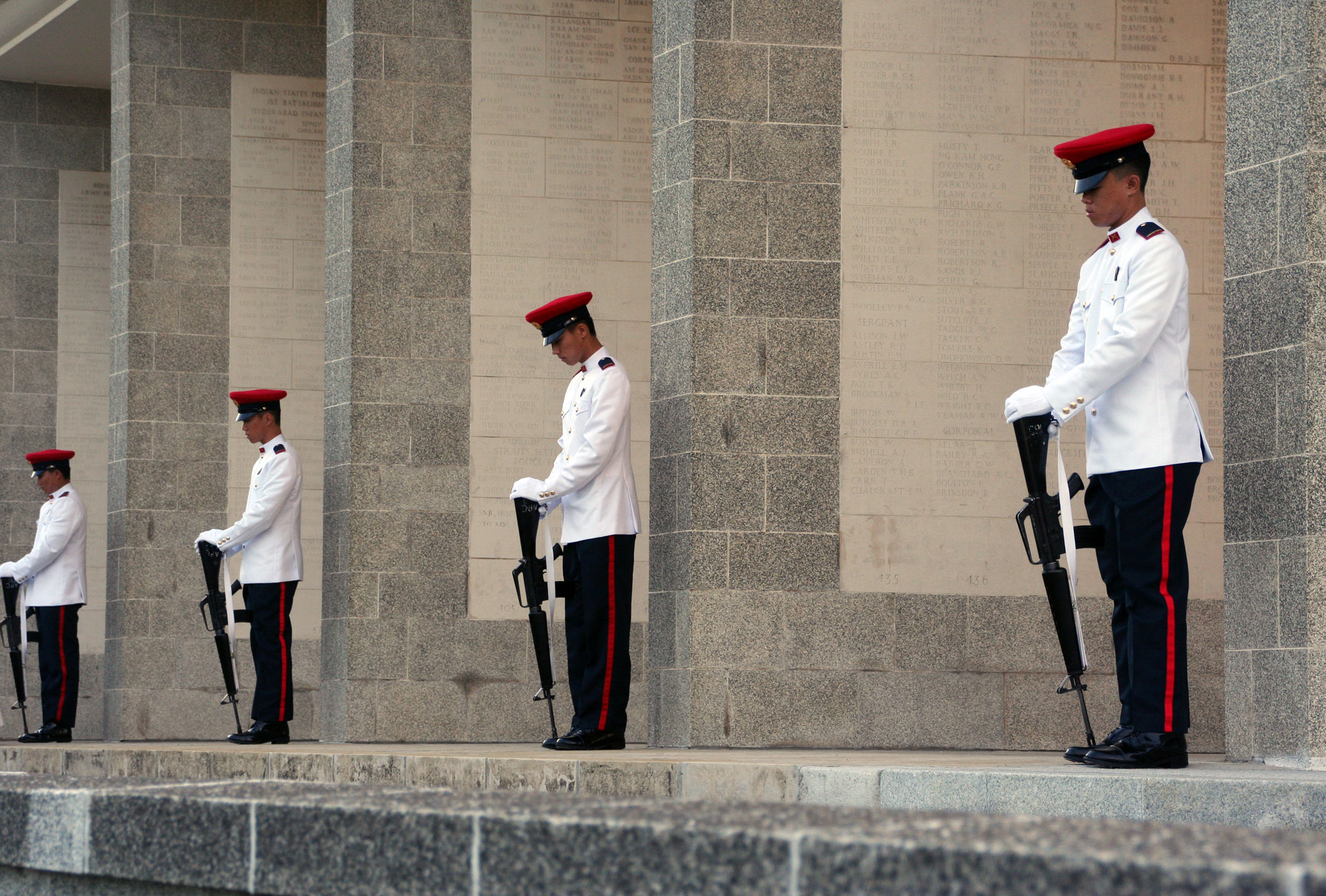 Description: Rememberance Day Ceremony proceedings at the Kranji War Memorial. Source: Self-made Location: Kranji War Memorial, Singapore Date: 13/11/2005 07:33 Photographer/Painter: Huaiwei